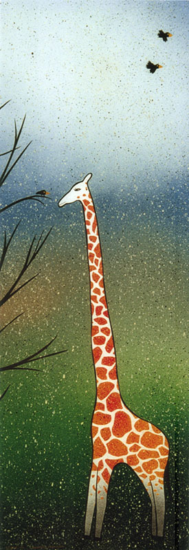 "Giraffe's Friendship", acrylic painting by Nerva